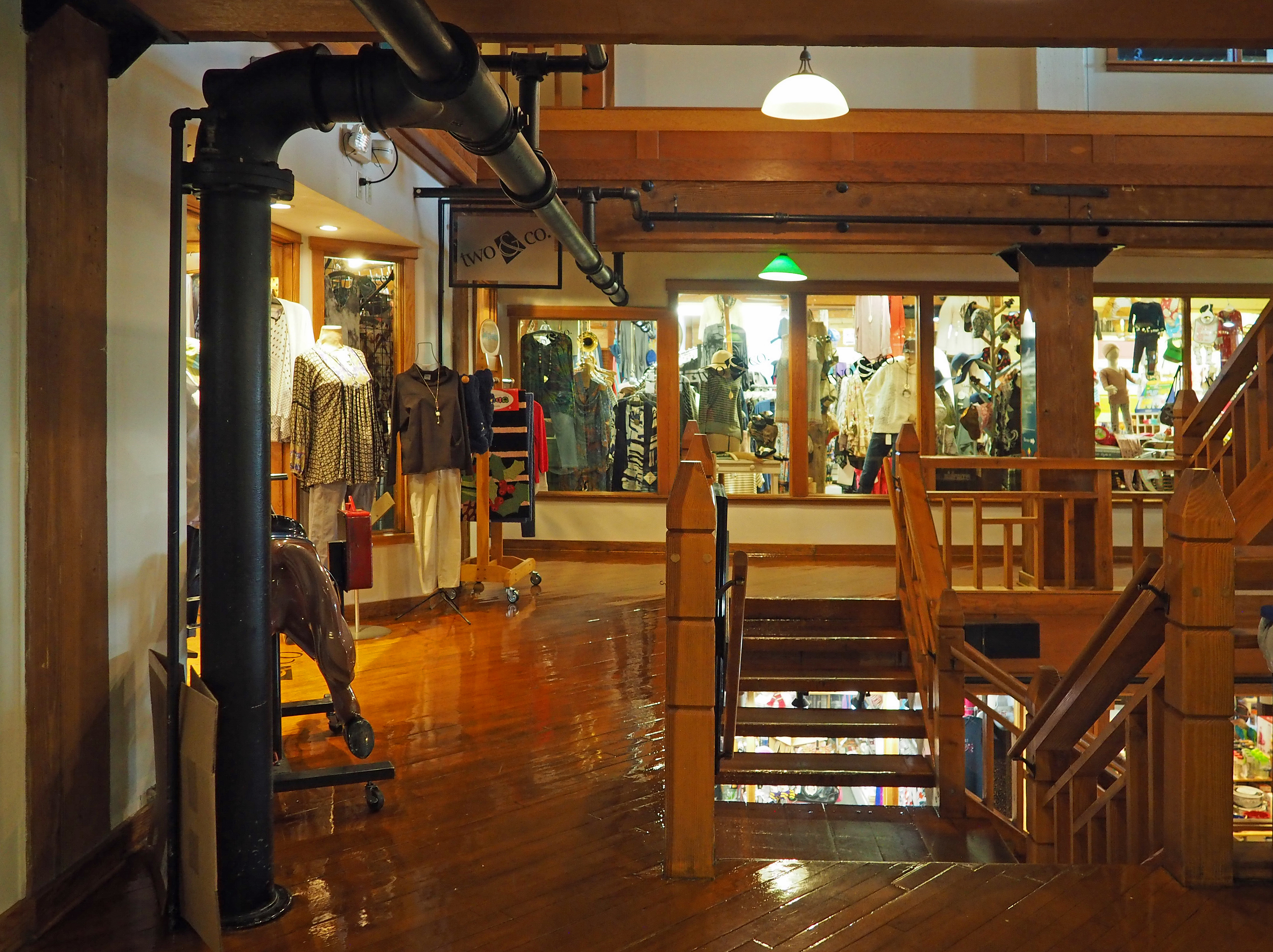 Interior of the DeWitt-Seitz Building, 394 Lake Ave S, Duluth, Minnesota, USA.